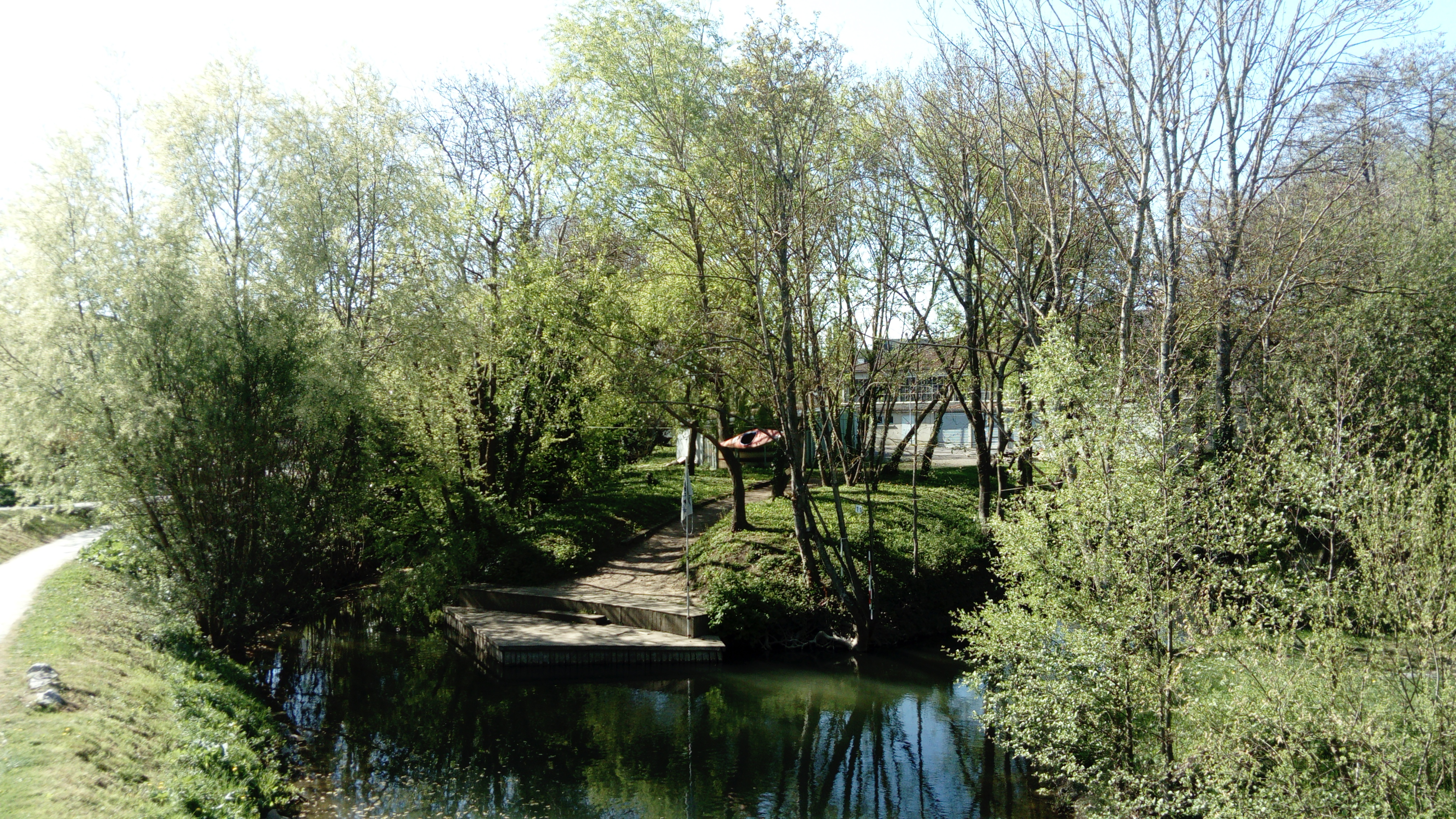 Picture of the public park of the Plan d'eau in the town of Argentan in Normandy, France.